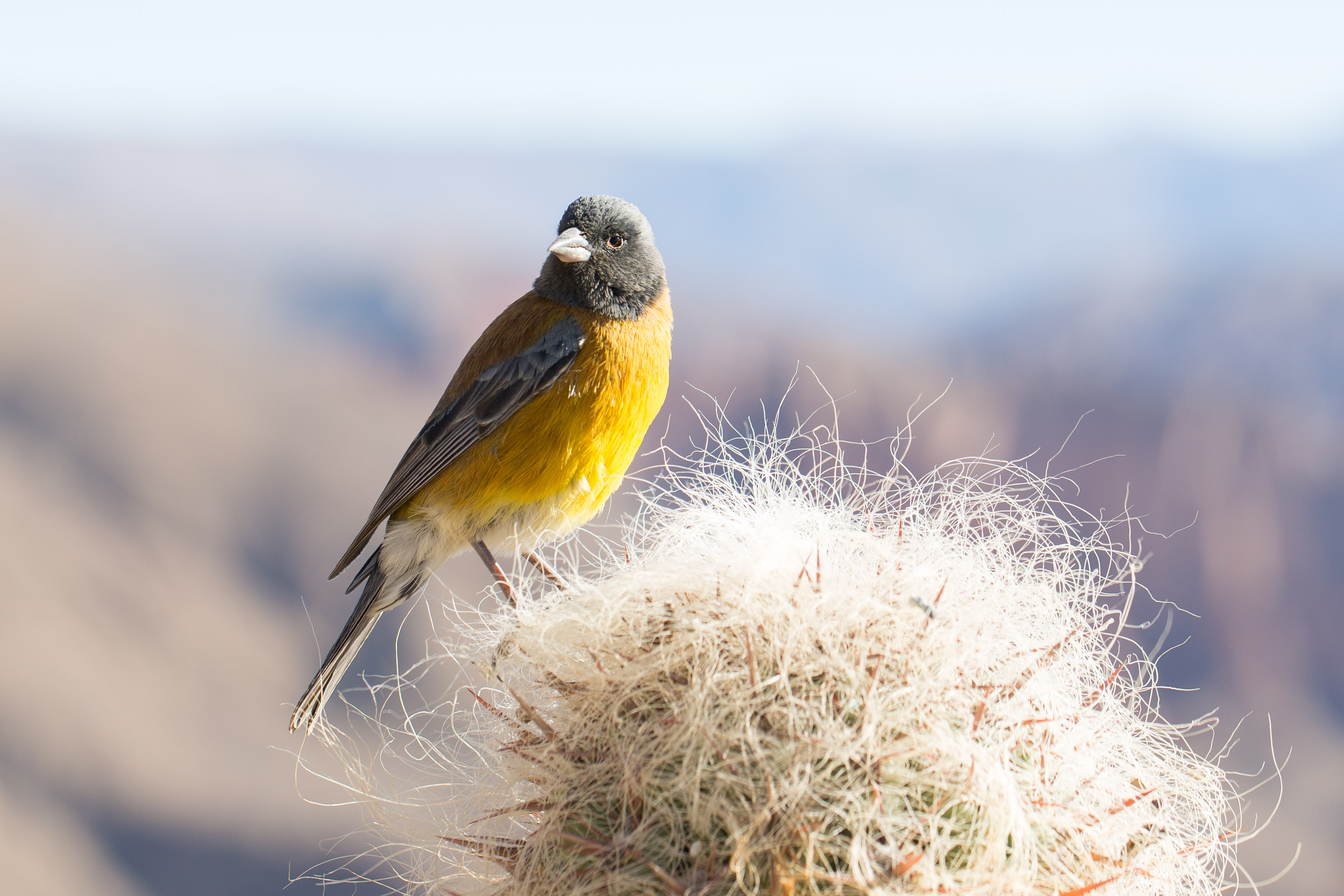 Phrygilus punensis near Tupiza, Bolivia